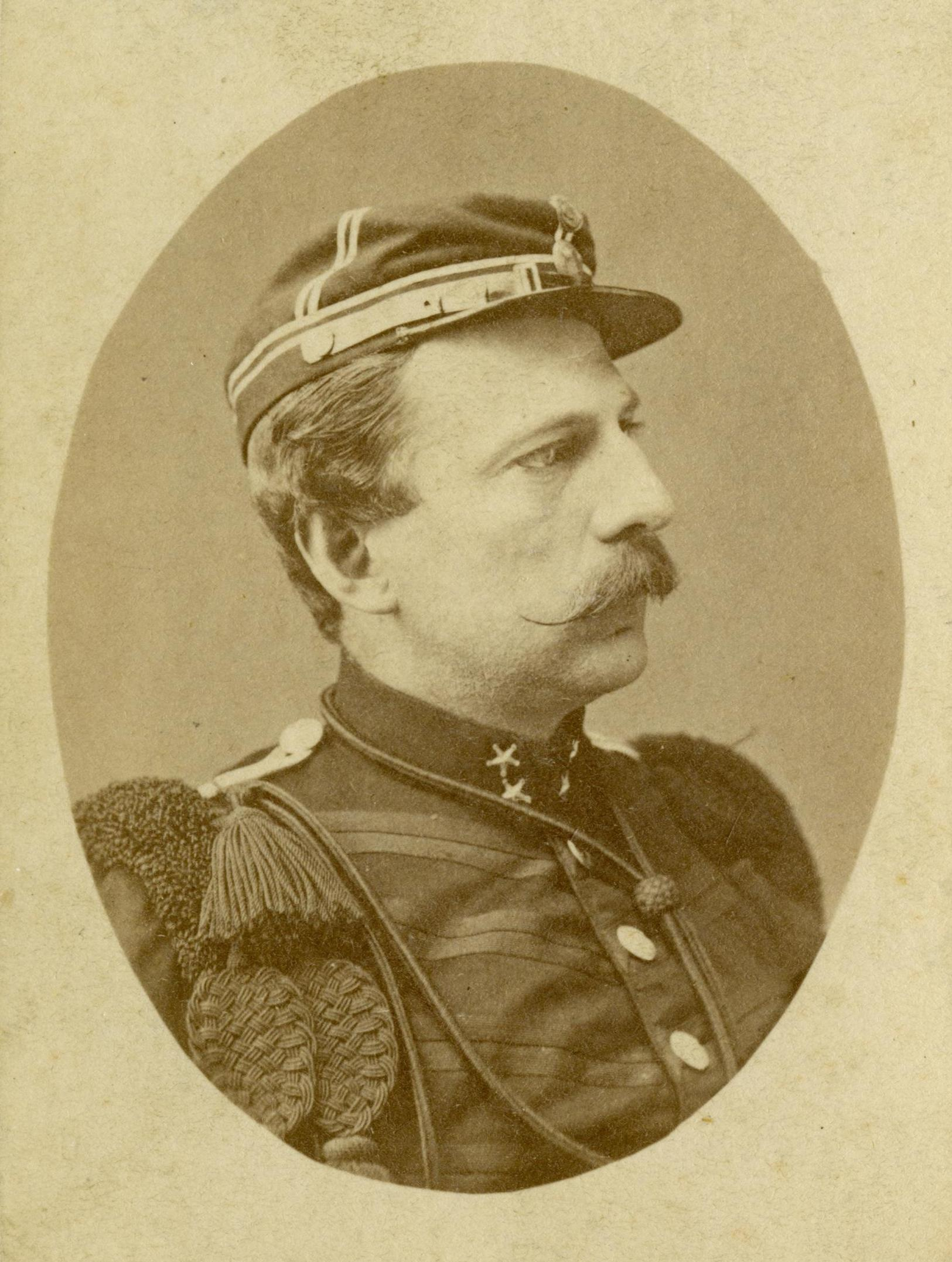 Photographer Gösta Florman in an early military photo Place: Sweden